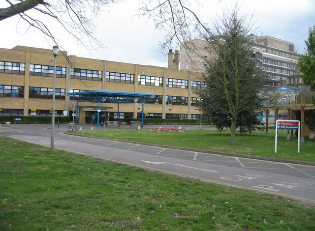 Rosie Maternity Hospital Fond memories for many Cambridge residents.